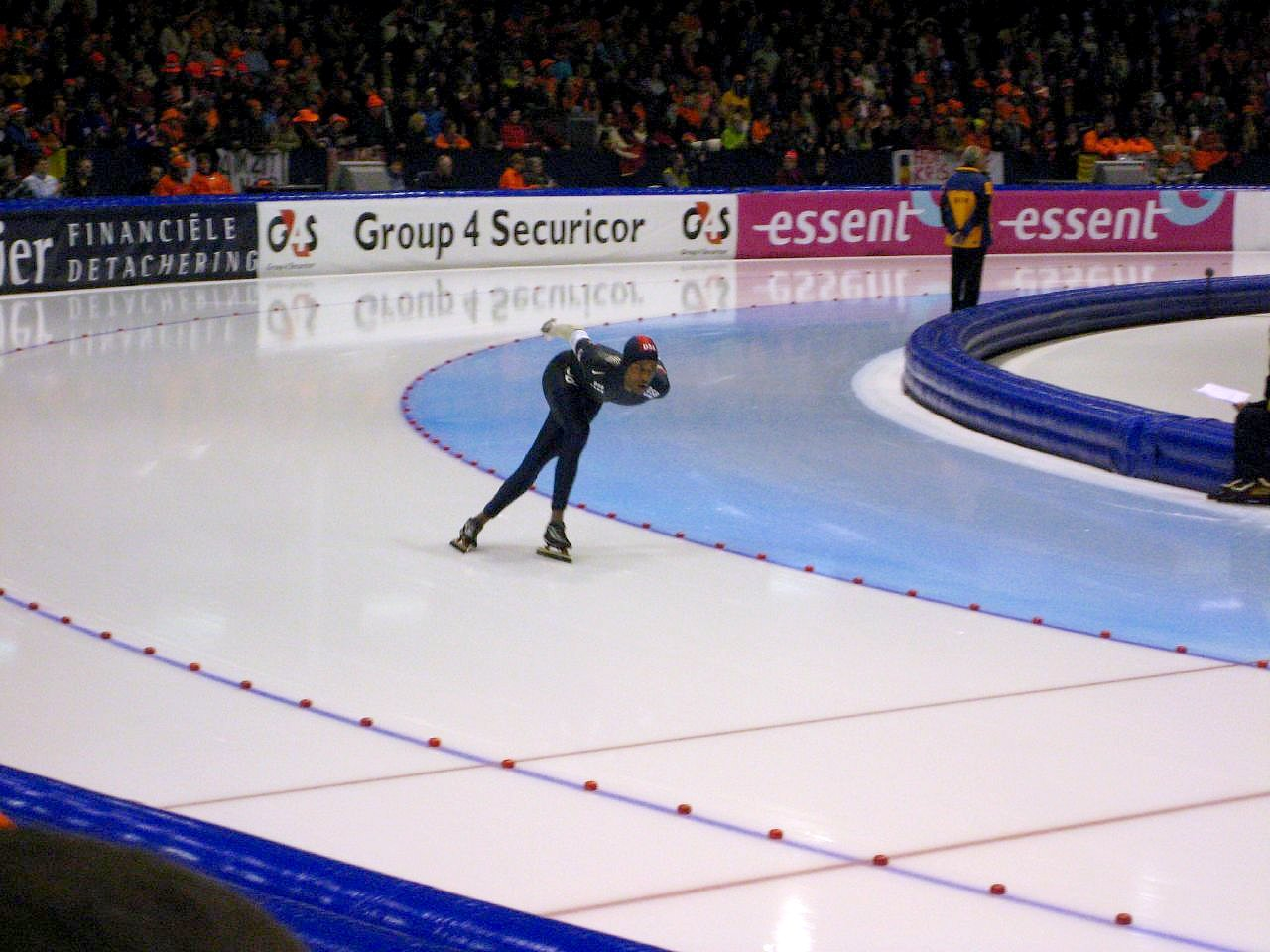 Shani Davis skating for second place in the 5000 meters (World Cup 8 Dec 2007 - Heerenveen).